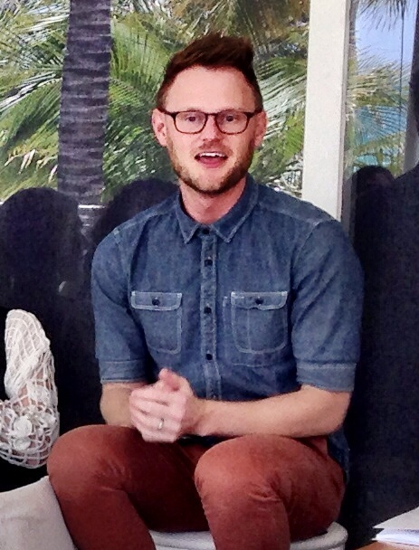 Bobby Berk - Design to Sell Session